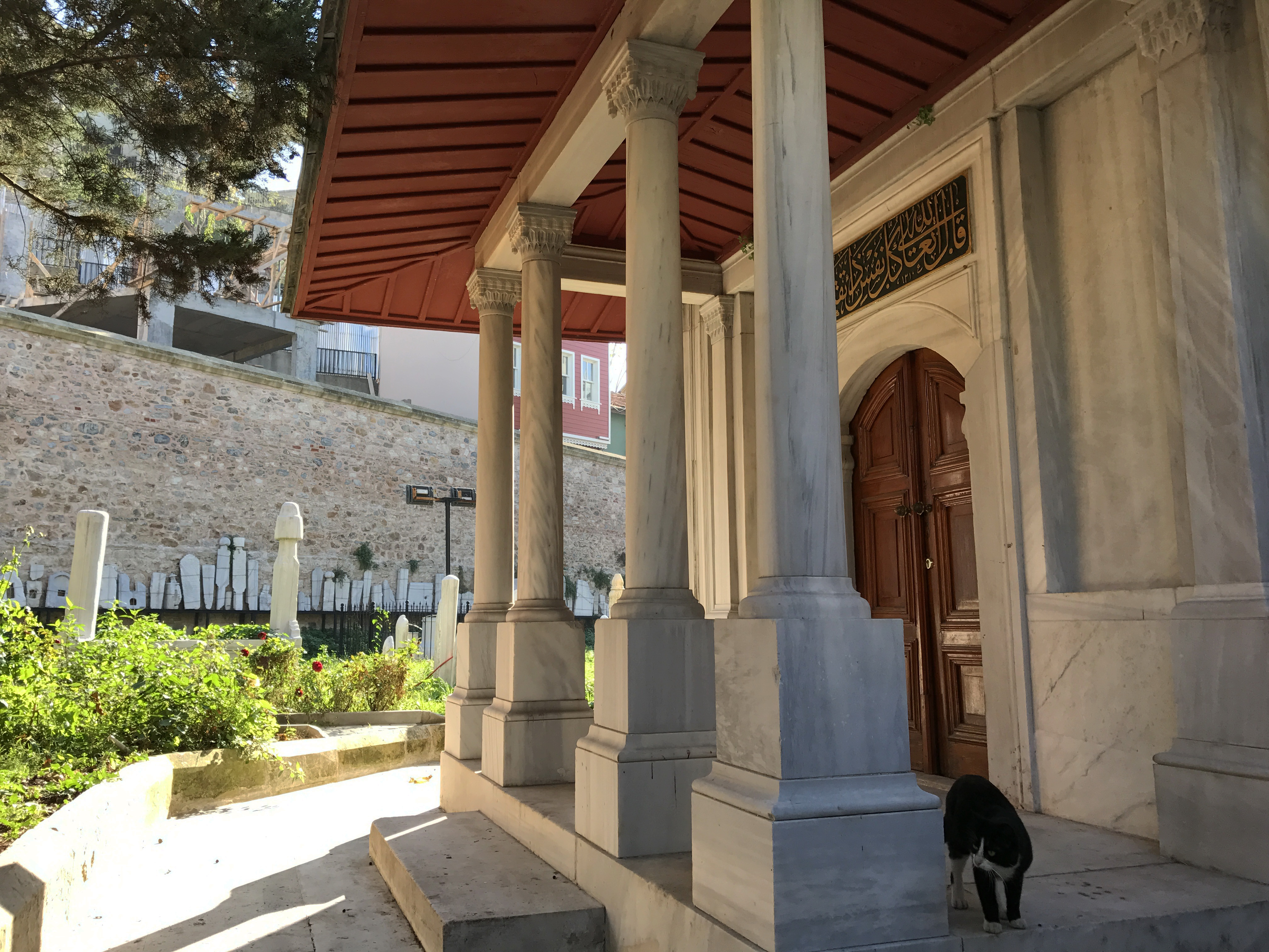 Mihrimah Sultan Mosque (built 1548), is an Ottoman mosque located in the historic center of the Üsküdar municipality in Istanbul, Turkey. It is the first of two mosques built by Mihrimah Sultan, daughter of Sultan Suleiman the Magnificent and wife of Grand Vizier Rüstem Pasha. It was designed by Mimar Sinan and built between 1546 and 1548.